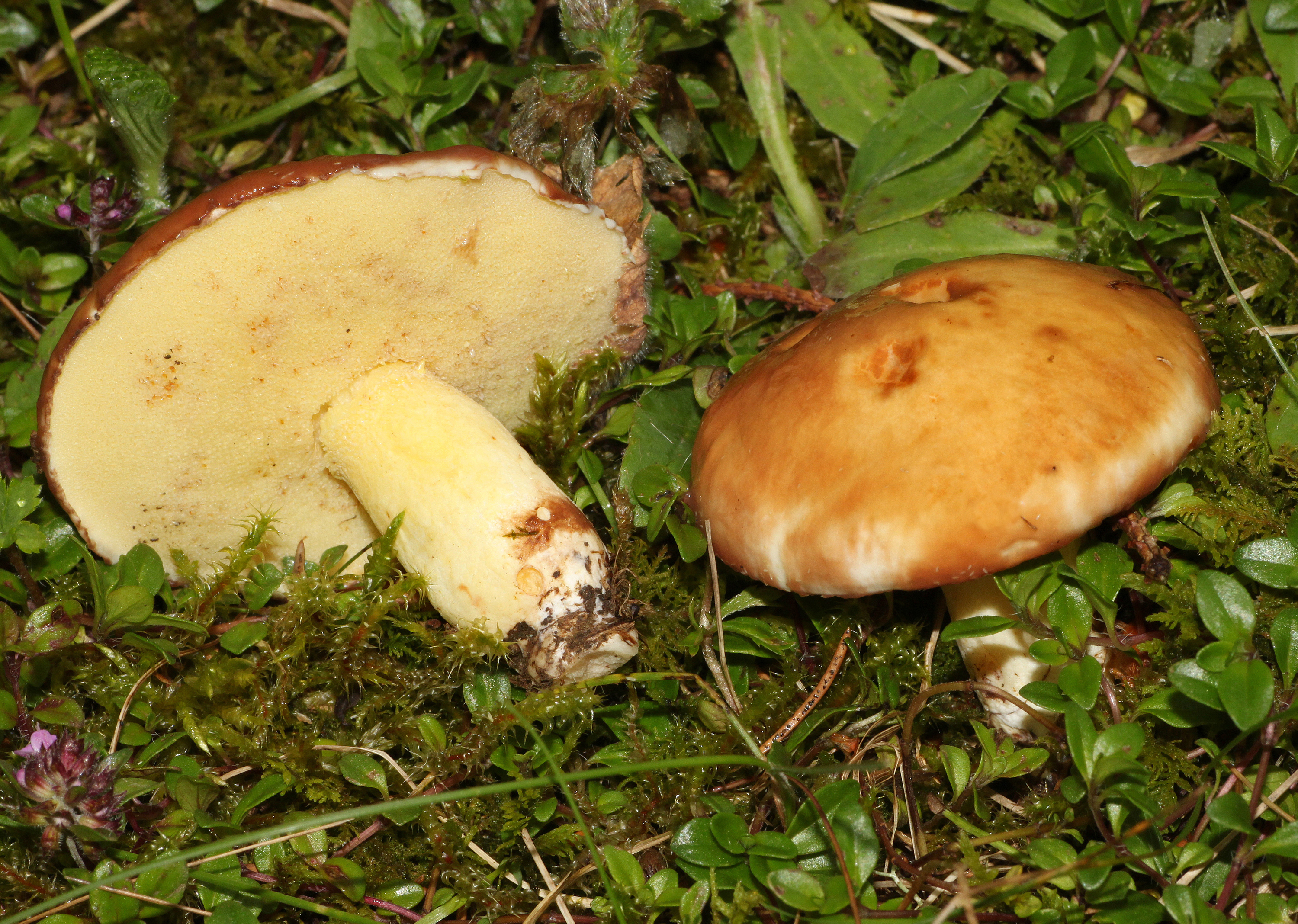 Weeping Bolete or Granulated Bolete, Suillus granulatus, Family: Suillaceae, Location: Slovenia, Bled